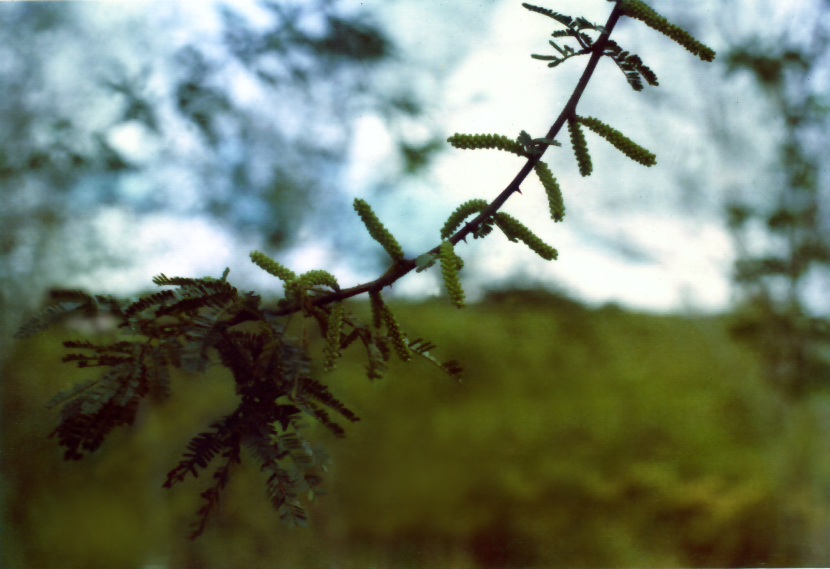 Mimosa tenuiflora syn. Mimosa hostilis in Brazil